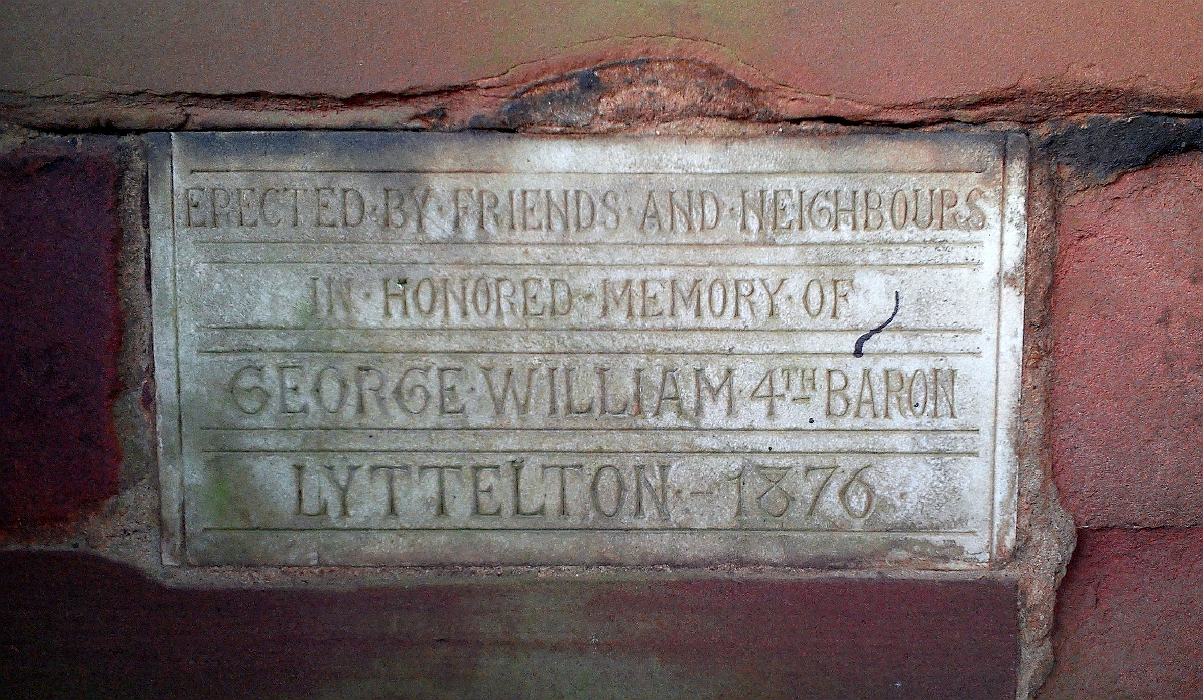 Hagley, Worcestershire, St John the Baptist Church: tablet with inscription inside the lychgate